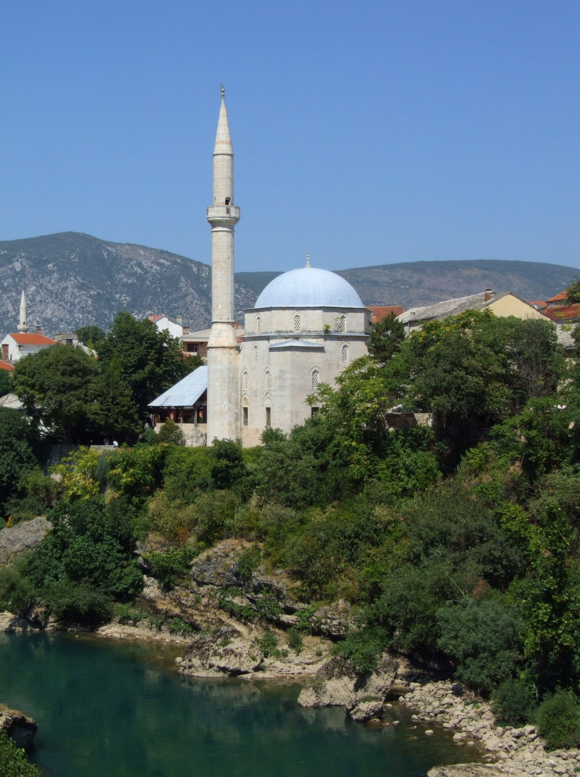 Koski Mehmed Pasha Mosque in Mostar